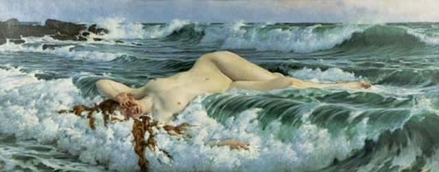 Paintings by Adolf Hirémy-Hirschl venus